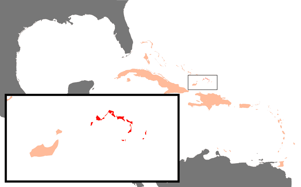 Position of Turks and Caicos islands in the Caribbean